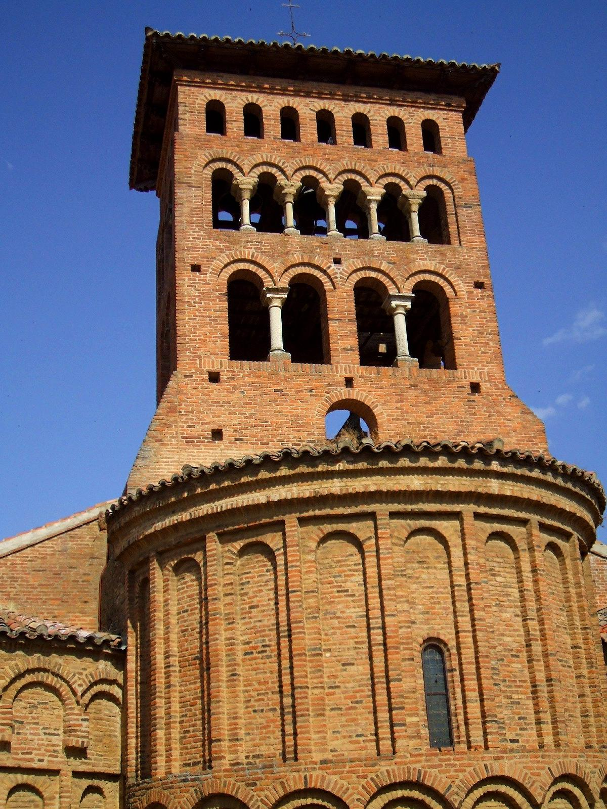 Iglesia de San Tirso, Sahagún (León, España)